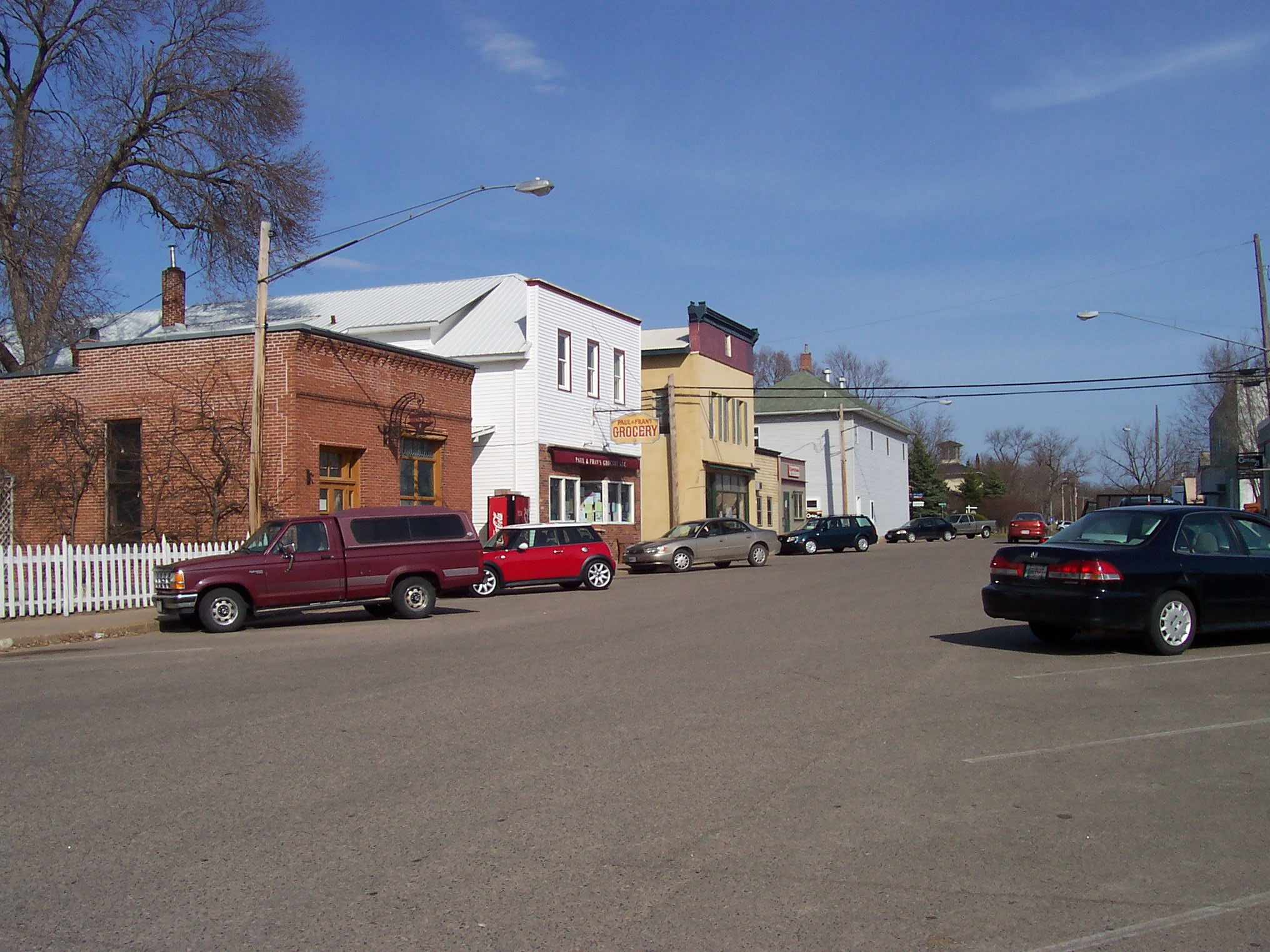 Part of Pepin's business district, Wisconsin